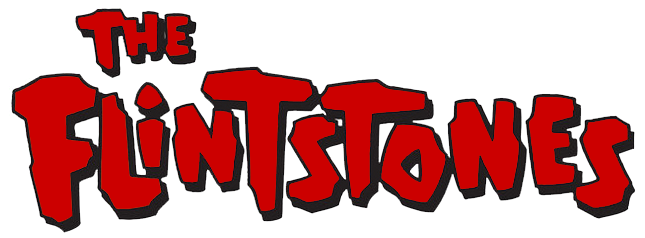 Logo of The Flintstones